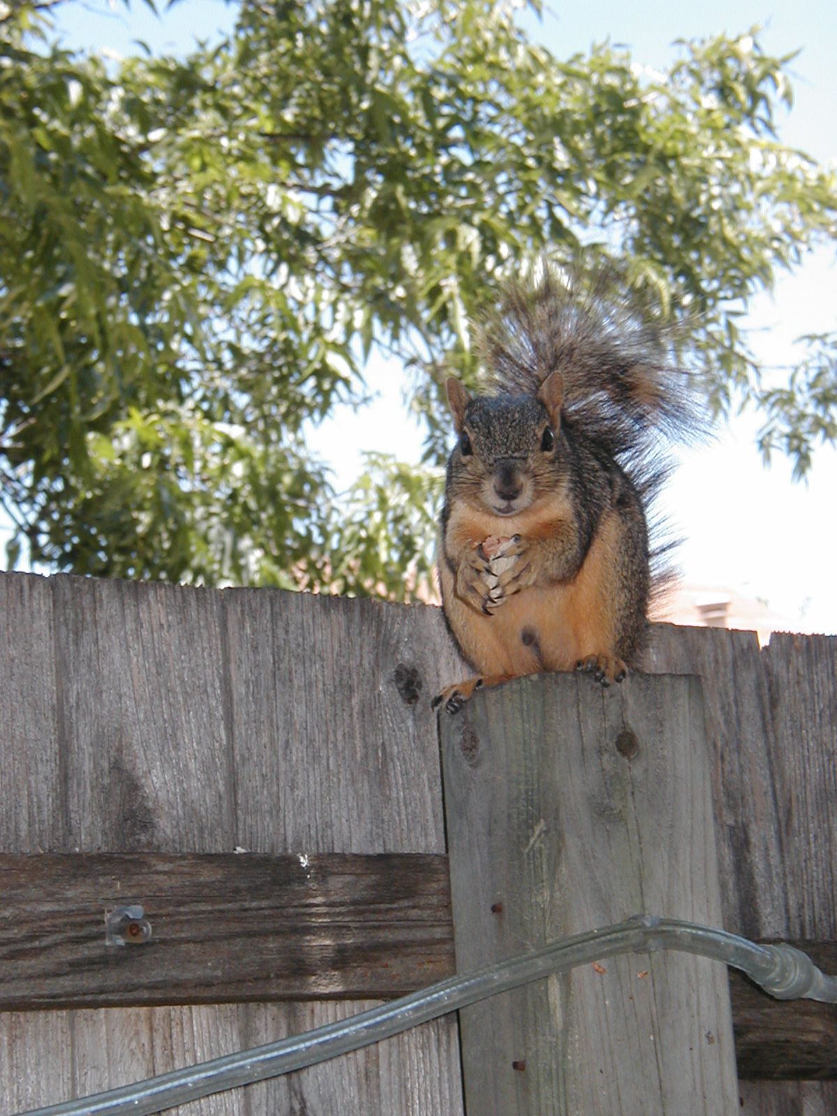 A Fox Squirrel, Sciurus niger, eating a peanut while sitting on a fence in Denton, Texas, USA